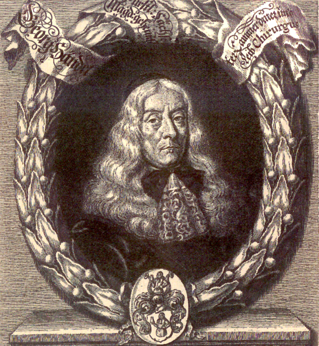 Georg Händel (1622—1697), engraving from Johann Jacob Sandrart